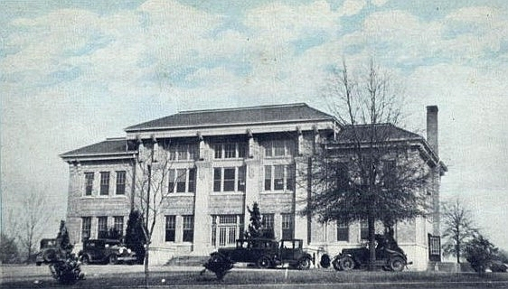 Stone County Courthouse, Wiggins, Mississippi, circa 1920